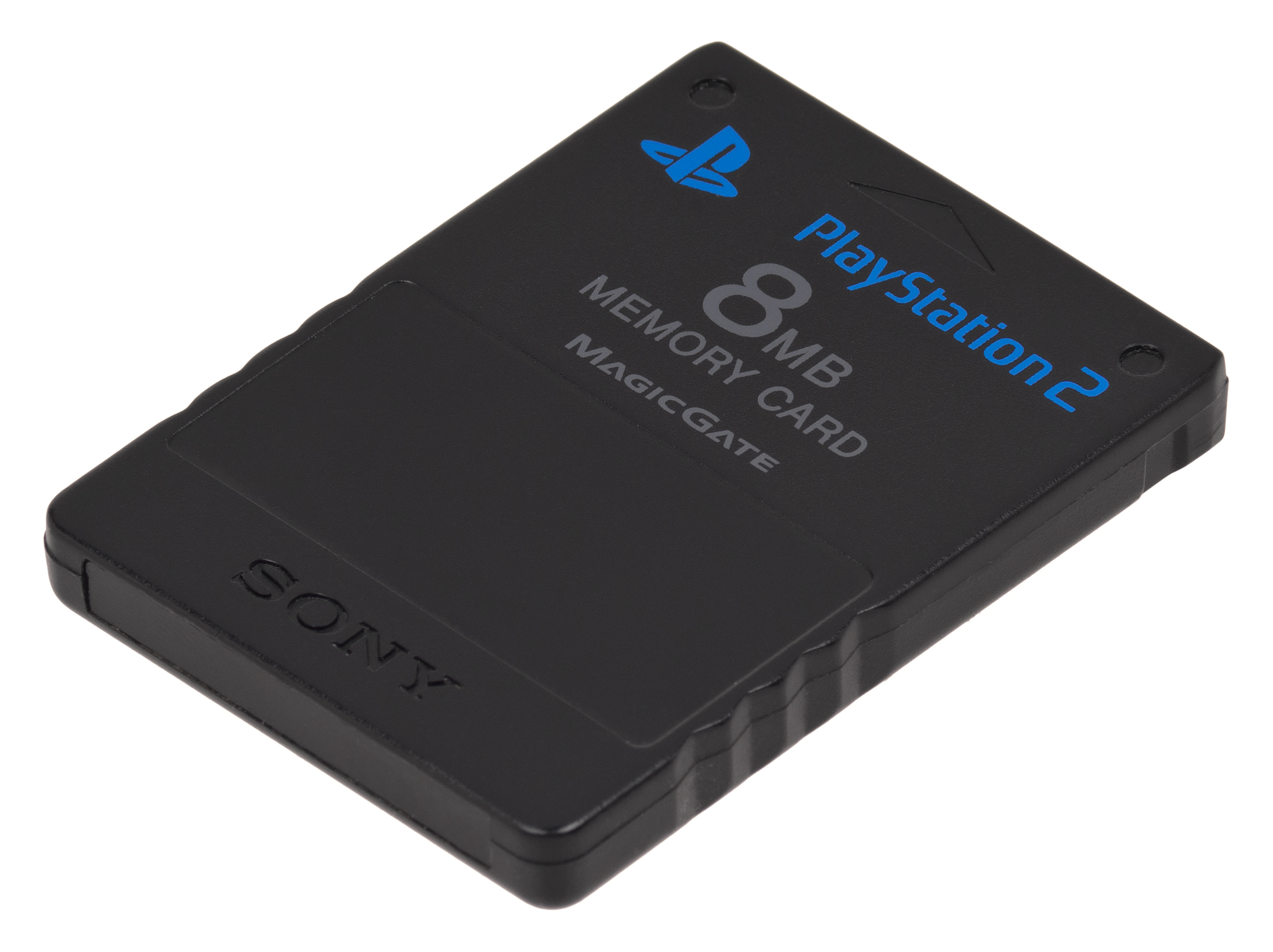 A Sony PlayStation 2 memory card, used for saving games.